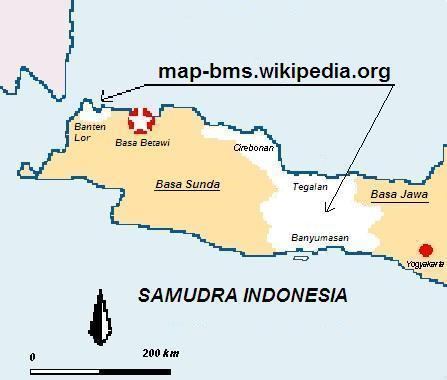 Banyumasan dialect area on Java Island